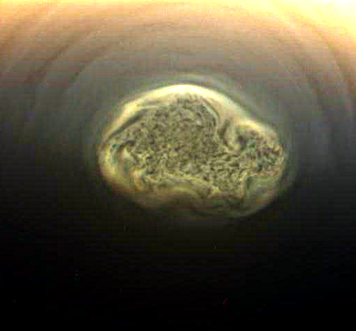 Titan, the second-largest moon in the Solar System, has a permanent hurricane at its south pole. "Warm" air goes up the sides, gets even colder, and sinks down the center.